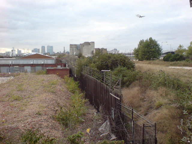 Area to become Silvertown Quays A large regeneration project is proposed here, called Silvertown Quays. The development will include 5,000 new homes (including over 1,300 affordable units), 7,800 sq m of office space, 7,600 sq m of flexible workspace, 8,000 sq m of community facilities, 5,570 sq m of restaurants and bars and 18,925 sq m of leisure facilities including the aquarium project known as Biota! which is being developed by KUD International with the Zoological Society of London (ZSL). The planning agreement with the London Borough of Newham provides for the Biota! project and a contribution of £25 million towards the cost of infrastructure and local community benefits including a multi-use community centre, a modern library, a major new health centre and a primary school with nursery facilities. There will also be new public open spaces and landscaping, better pedestrian, bus and cycle routes and a new pedestrian bridge across the North Woolwich Road to the new Docklands Light Railway station, which will be subject to an early architectural competition.There will also be high quality restaurants and retail units in what will become a "lively town centre". Over £1m has been committed for training local people. It is expected that upwards of 2,000 jobs will be created with 25 per cent earmarked for Newham residents along with 25 percent of the construction jobs. Ten per cent of the construction jobs will be apprenticeships. The developers have secured a £119m loan facility from the Bank of Scotland which will be used to finance the development.